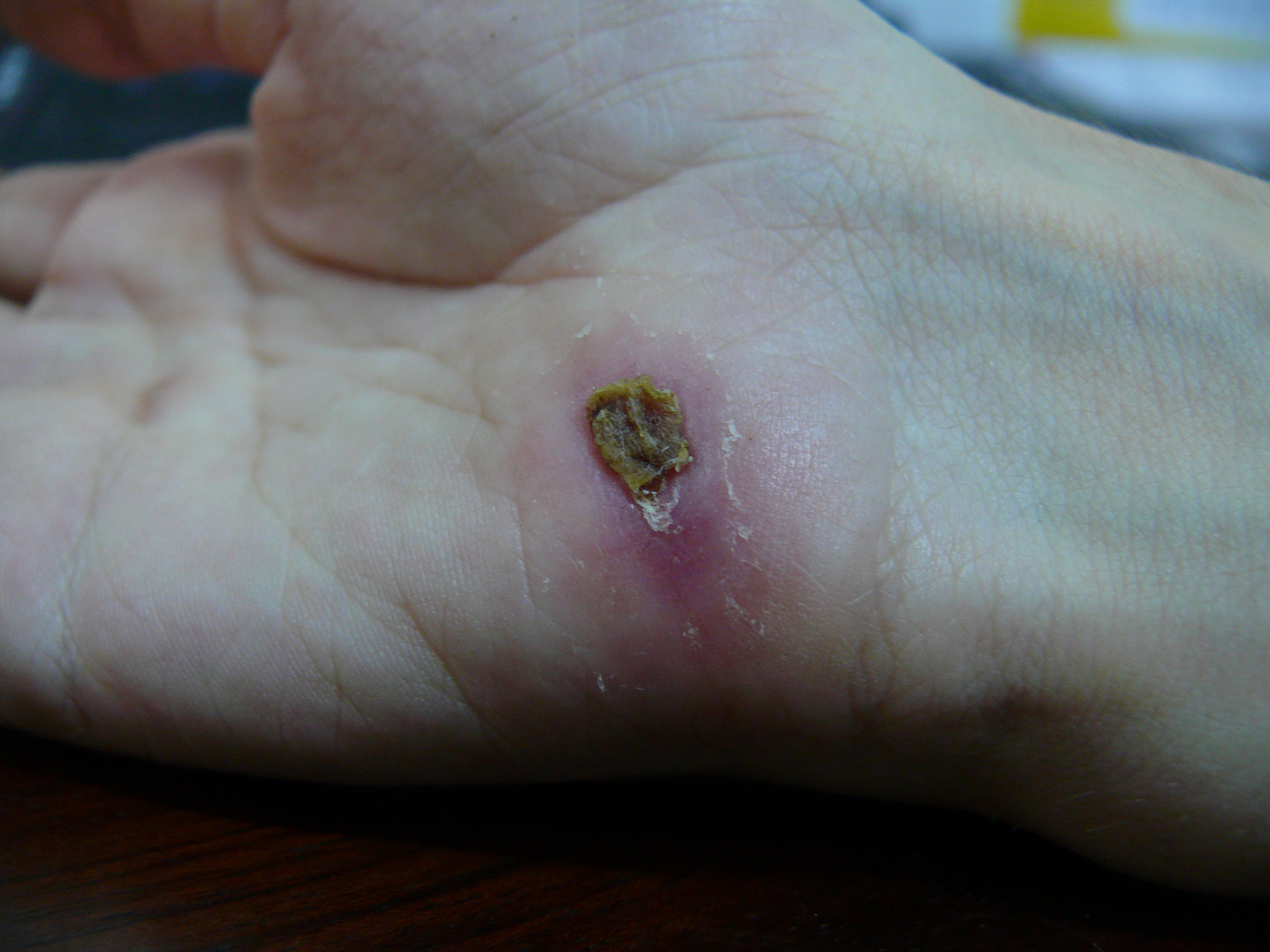 Wound on palm of hand 18 days after falling off a bike onto concrete. Previous photos: Day 1: Image:Wound on palm of hand.jpg Day 2: Image:Wound on palm of hand - day 2.jpg Day 3: Image:Wound on palm of hand - day 3.jpg Day 4: Image:Wound on palm of hand - day 4.jpg Day 5: Image:Wound on palm of hand - day 5.jpg Day 6: Image:Wound on palm of hand - day 6.jpg Day 7: Image:Wound on palm of hand - day 7.jpg Day 8: Image:Wound on palm of hand - day 8.jpg Day 9: Image:Wound on palm of hand - day 9.jpg Day 10: Image:Wound on palm of hand - day 10.jpg Day 11: Image:Wound on palm of hand - day 11.jpg Day 12: Image:Wound on palm of hand - day 12.jpg Day 13: Image:Wound on palm of hand - day 13.jpg Day 14: Image:Wound on palm of hand - day 14.jpg Day 15: Image:Wound on palm of hand - day 15.jpg Day 16: Image:Wound on palm of hand - day 16.jpg Day 17: Image:Wound on palm of hand - day 17.jpg Following photos: Day 19: Image:Wound on palm of hand - day 19.jpg Day 20: Image:Wound on palm of hand - day 20.jpg